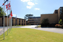 Photograph of ECMWF